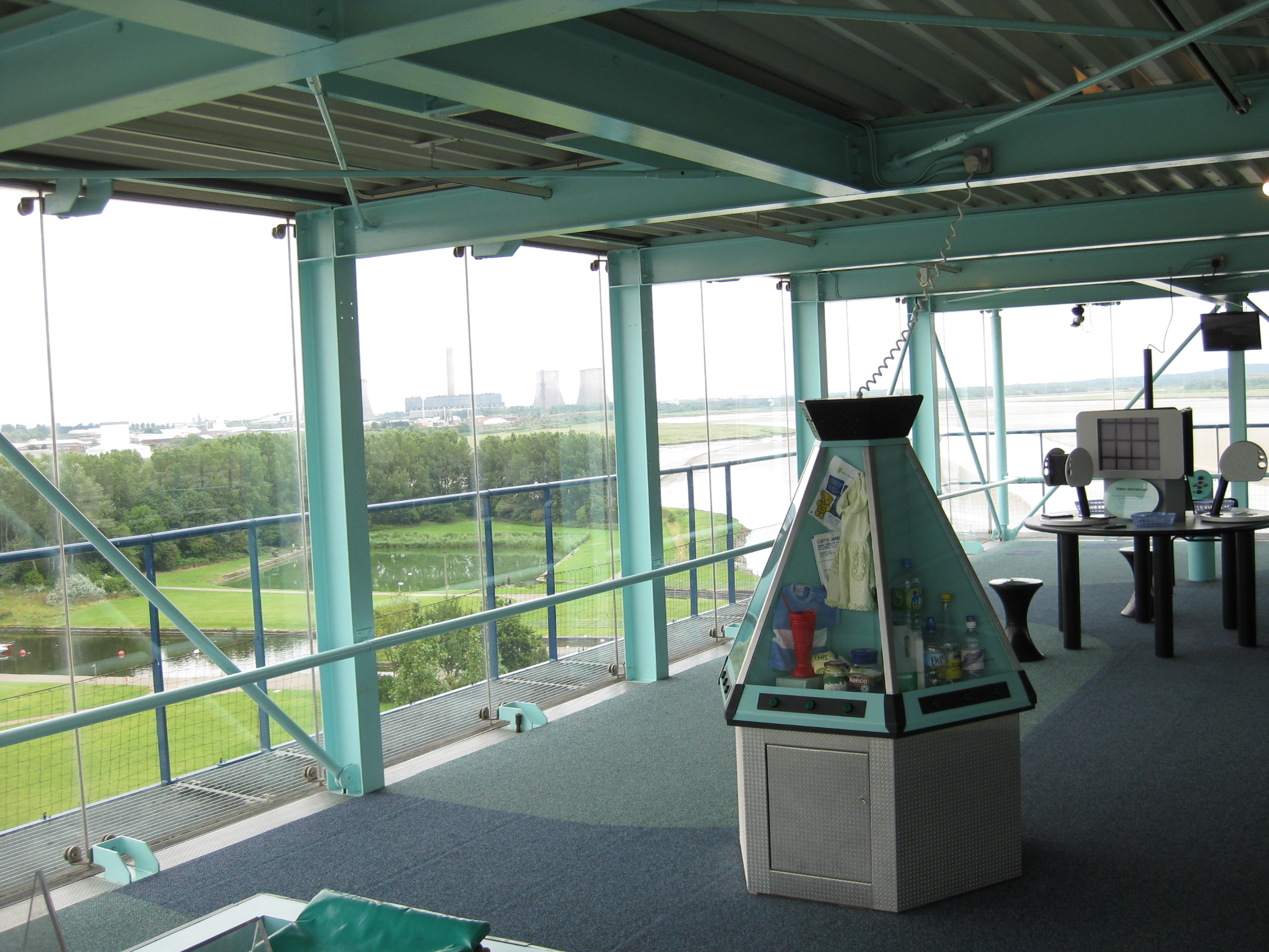 The Catalyst Museum, Widnes. The top floor, called The Observatory, with activities and views.